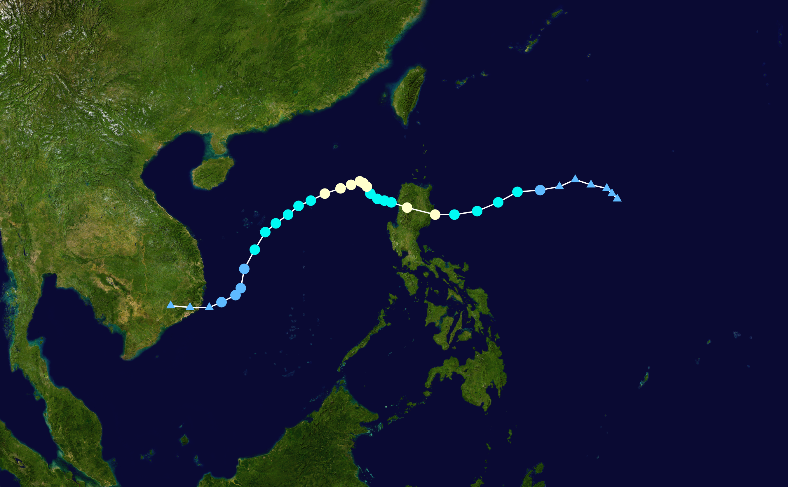 Track map of Typhoon Peipah of the 2007 Pacific typhoon season. The points show the location of the storm at 6-hour intervals. The colour represents the storm's maximum sustained wind speeds as classified in the Saffir–Simpson scale (see below), and the shape of the data points represent the nature of the storm, according to the legend below. Saffir–Simpson scale Tropical depression≤38 mph≤62 km/h Category 3111–129 mph178–208 km/h Tropical storm39–73 mph63–118 km/h Category 4130–156 mph209–251 km/h Category 174–95 mph119–153 km/h Category 5≥157 mph≥252 km/h Category 296–110 mph154–177 km/h Unknown Storm type Tropical cyclone Subtropical cyclone Extratropical cyclone / Remnant low / Tropical disturbance / Monsoon depression